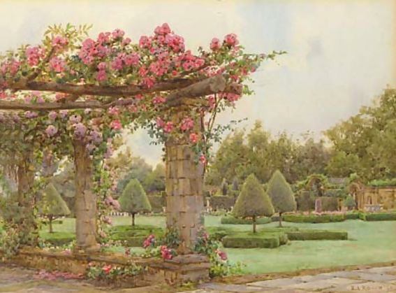 American Pillar rose, Hever Castle